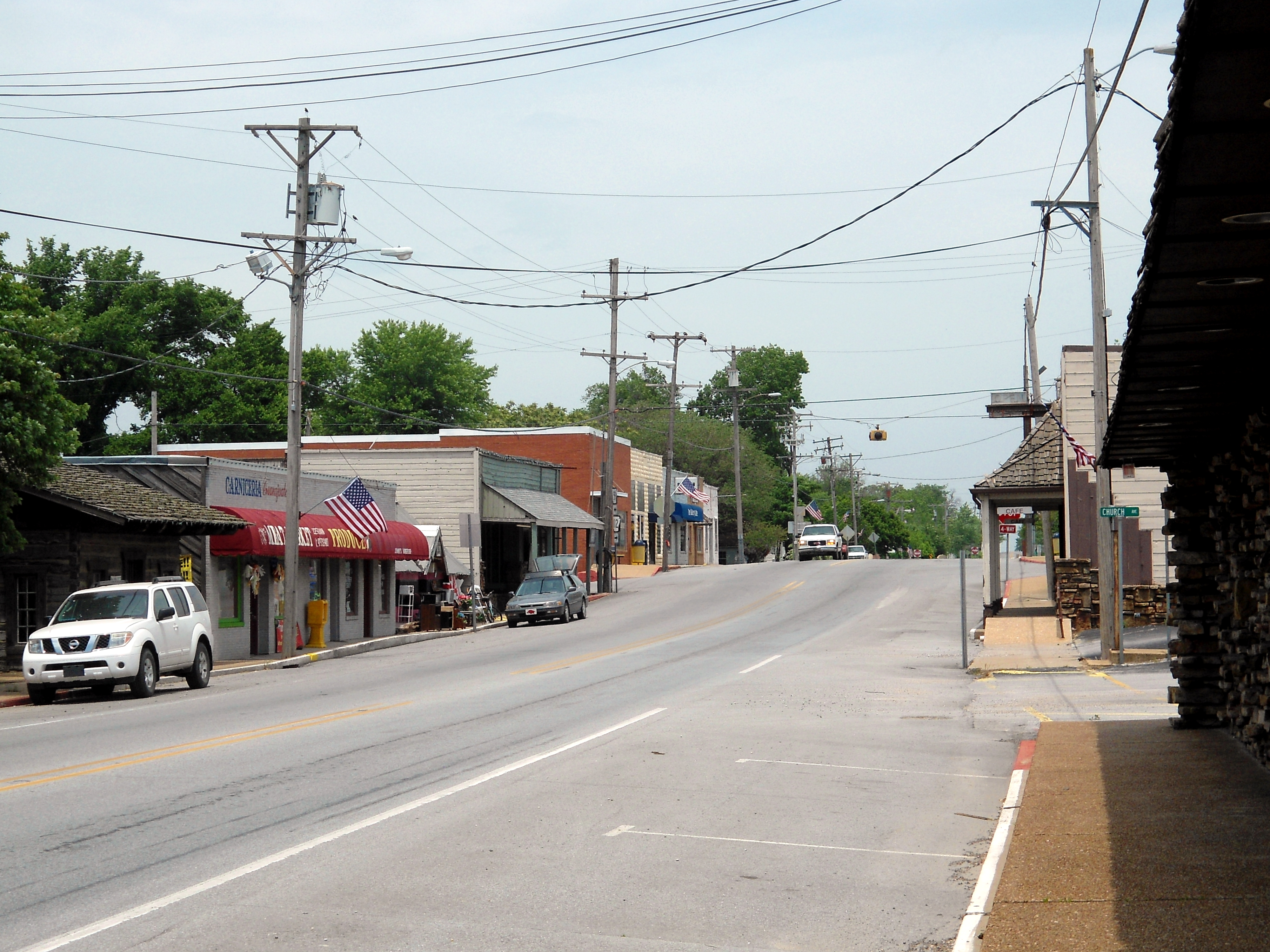 Downtown Decatur, AR. On Hwy. 59 facing north